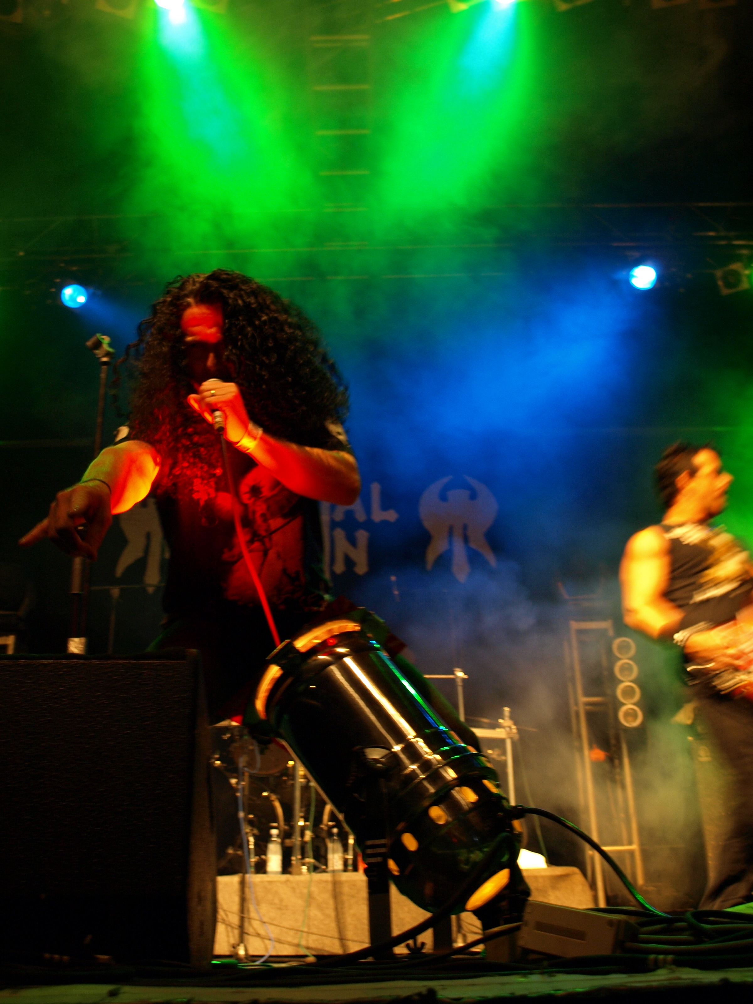 Australian Thrash metal band Mortal Sin live at Jalometalli 2008 in Oulu.